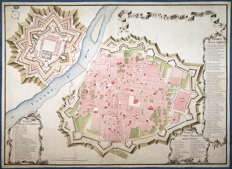 Plan of Alessandria; Details in Italian